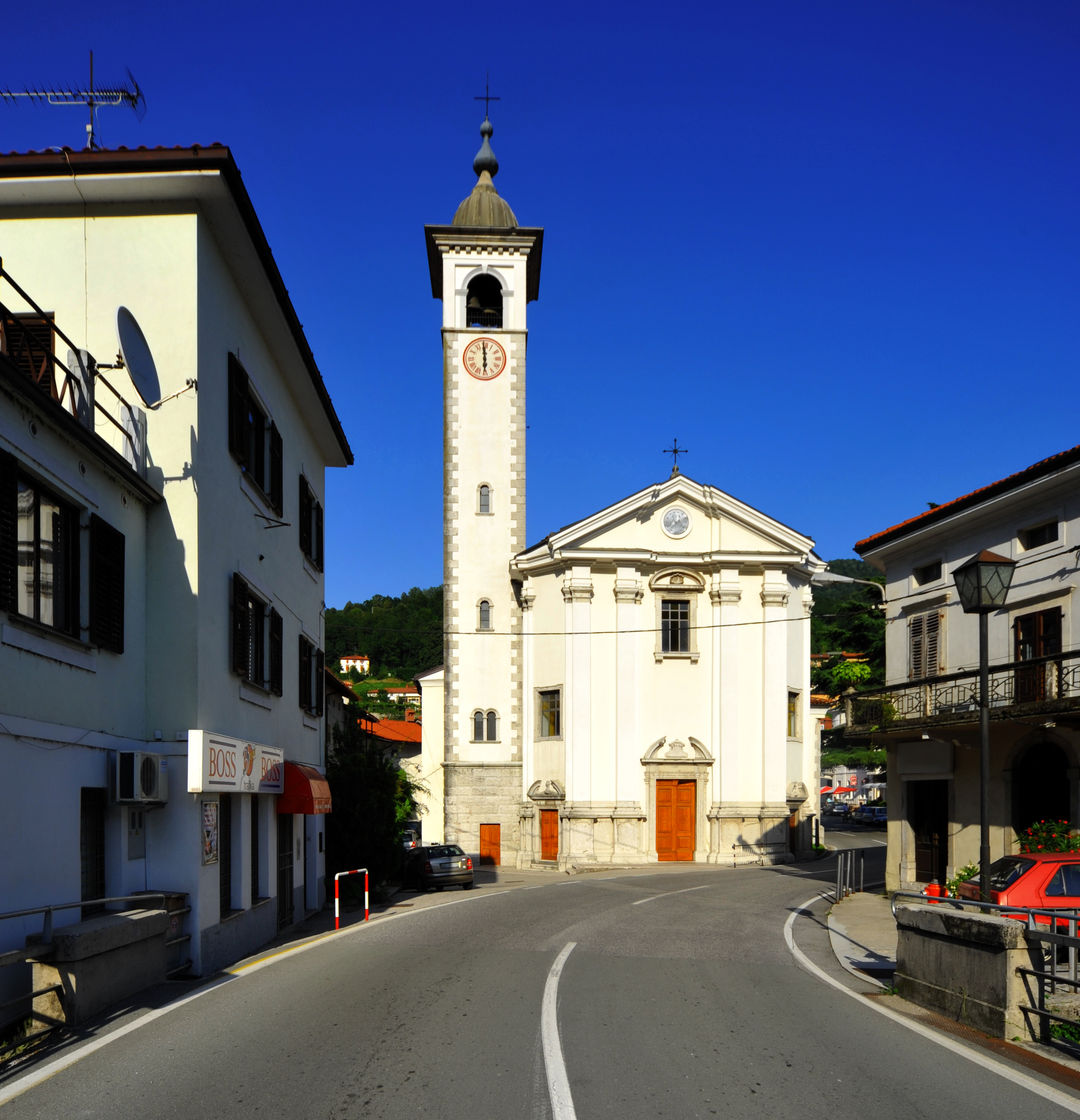 Parish church Assumption Day in Kanal ob Soči, Primorska, Slovenia